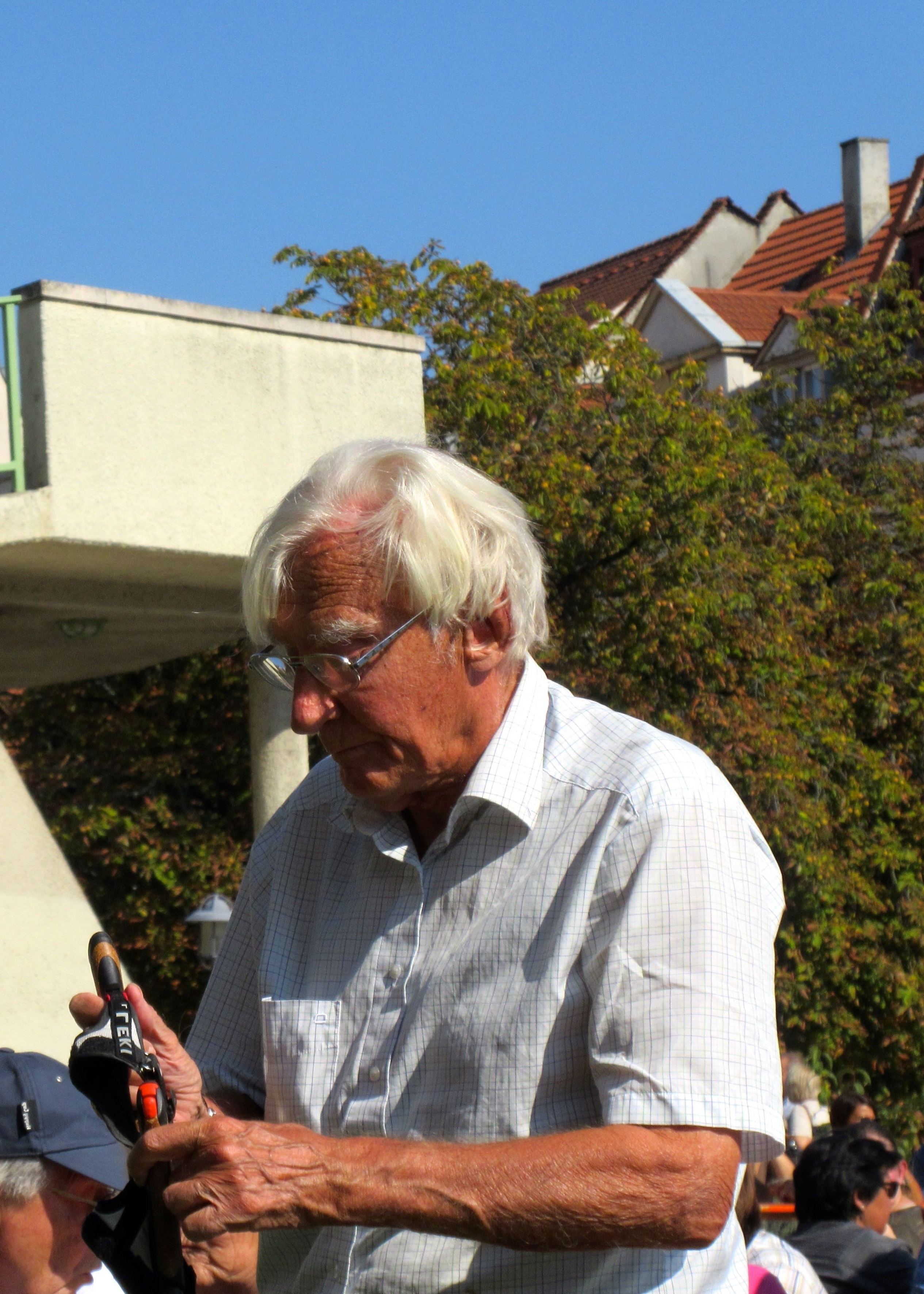 Helm Stierlin Dr. med., Dr. phil. Ordinarius Emeritus Psychiatrie